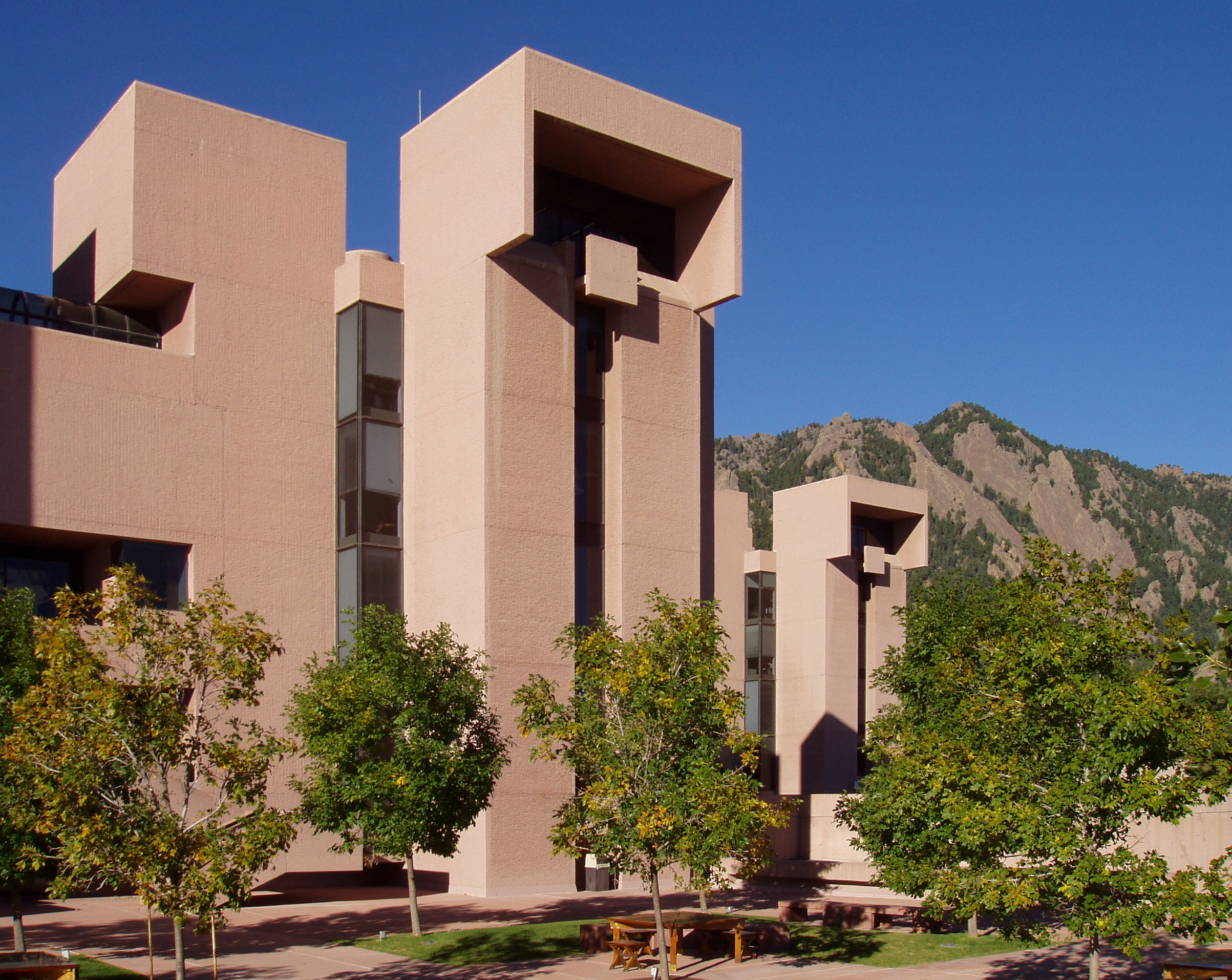 National Center for Atmospheric Research (NCAR) - Boulder, Colorado. Architect I. M. Pei with landscaping by Dan Kiley.